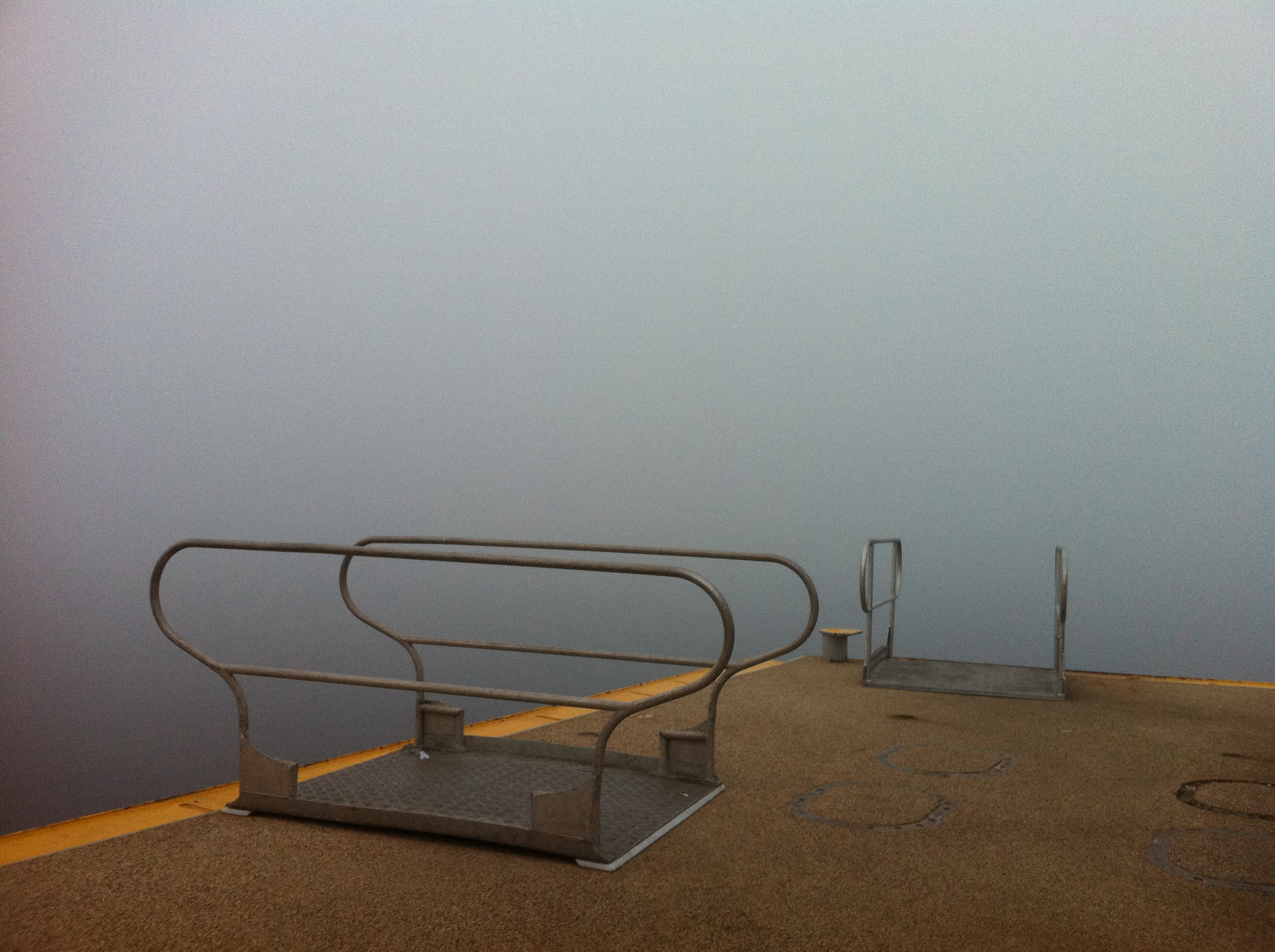 Fog at Styrsö, Göteborg, 2012